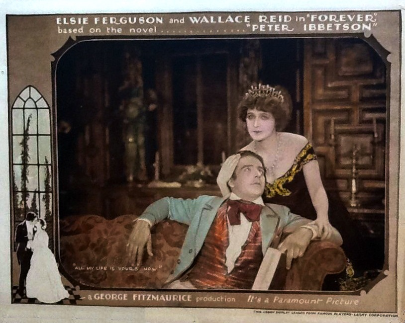 Lobby card for the American silent film Forever (1921) with Elsie Ferguson and Wallace Reid.